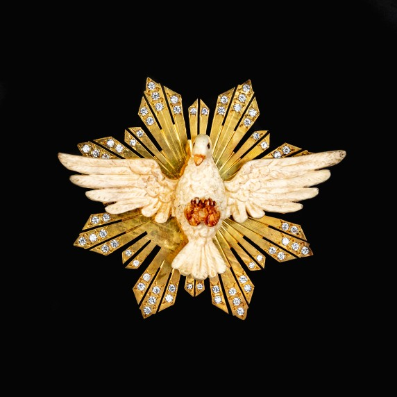 dove made from Ivory with rays of gold vermeil studded with cubic zirconia Symbolizing the Holy spirit ws given by a devotee for the 2018 Canonical Coronation.